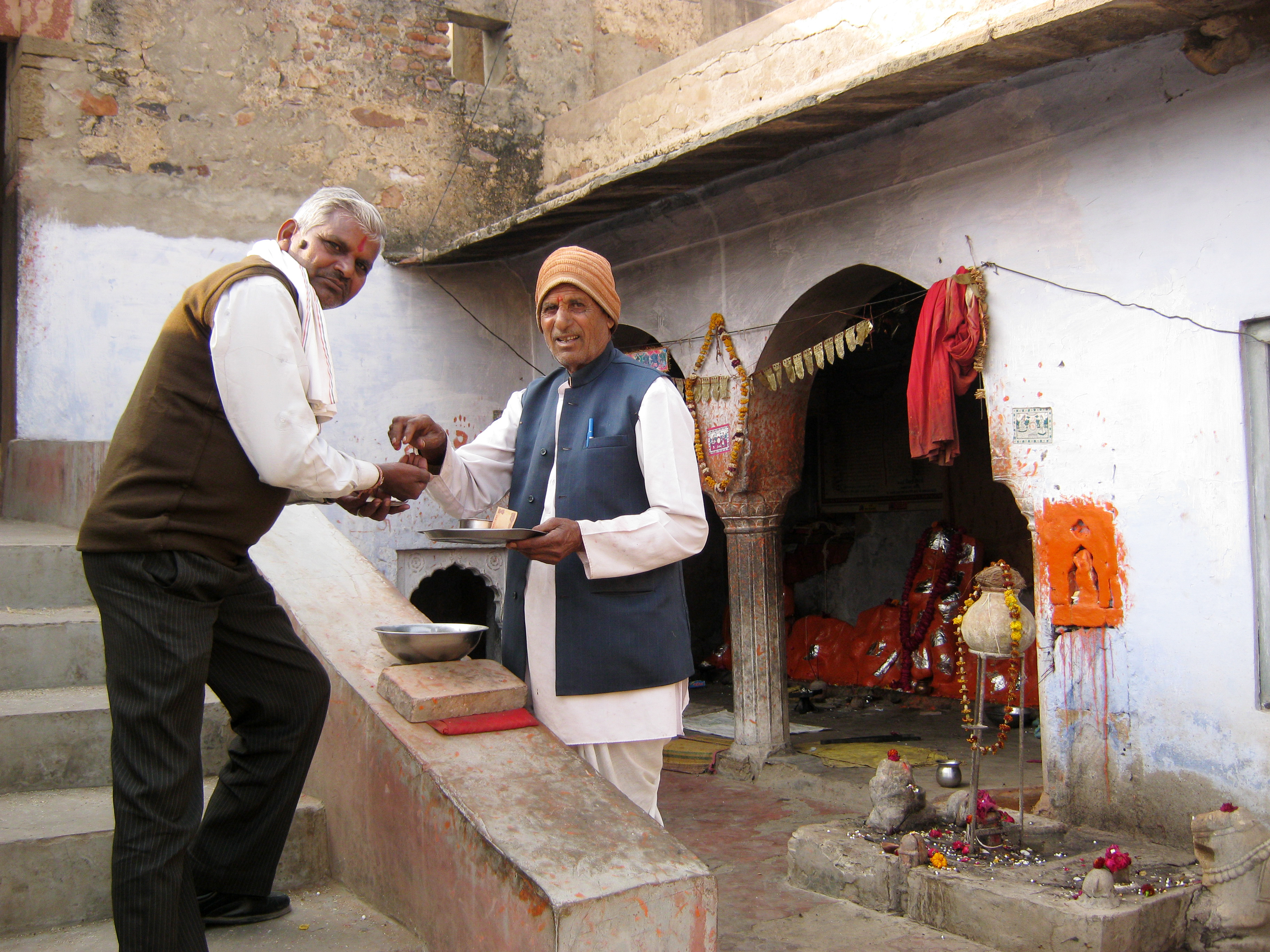 A Public God Place in Chand Baori Campus